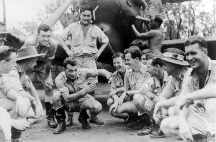 Australian War Memorial image 016411. Flying officer John Smithson demonstrates to other RAAF pilots how he engaged a formation of three Japanese bombers over Darwin Harbour on the morning of 12 November and shot down two. He was awarded the Distinguished Flying Cross for this action.